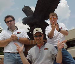 MorningCrewonROCK104